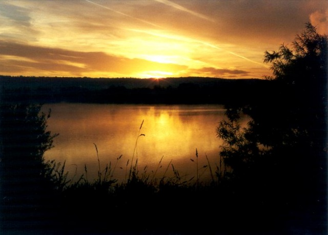 Sunrise over a lake near Leybourne. Sunrise over the lake.